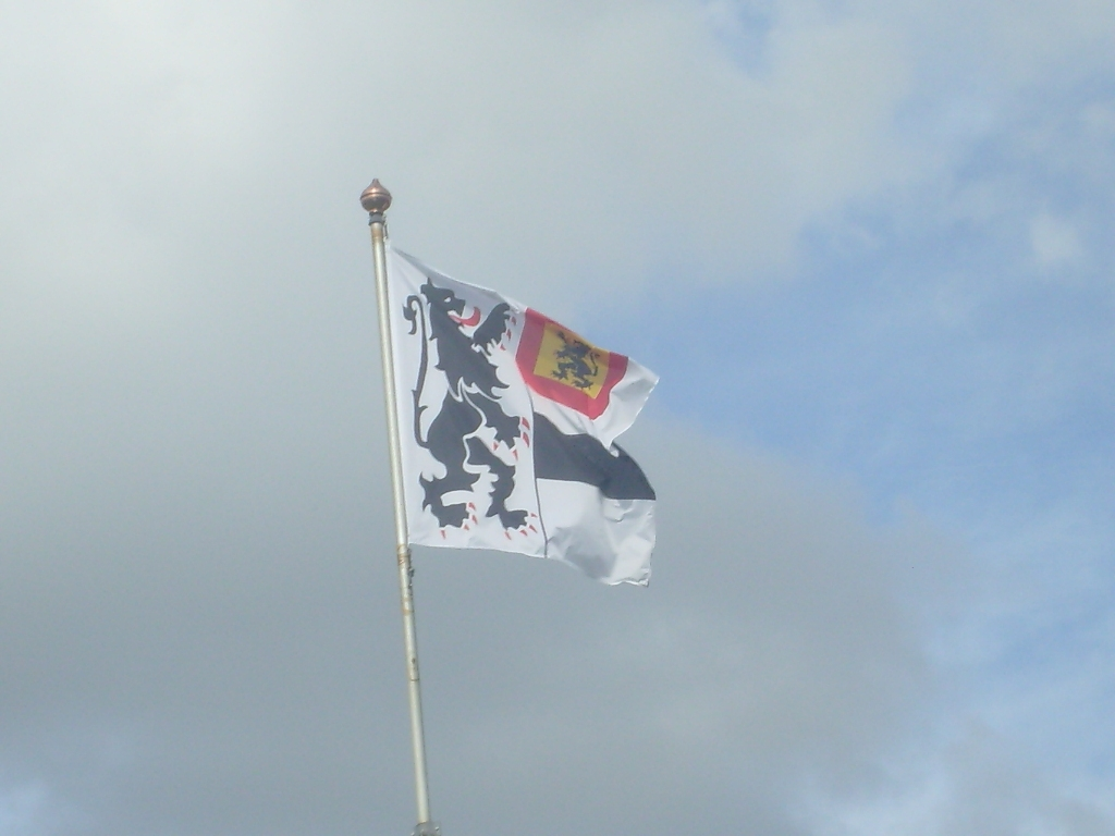 Flag of Bergues